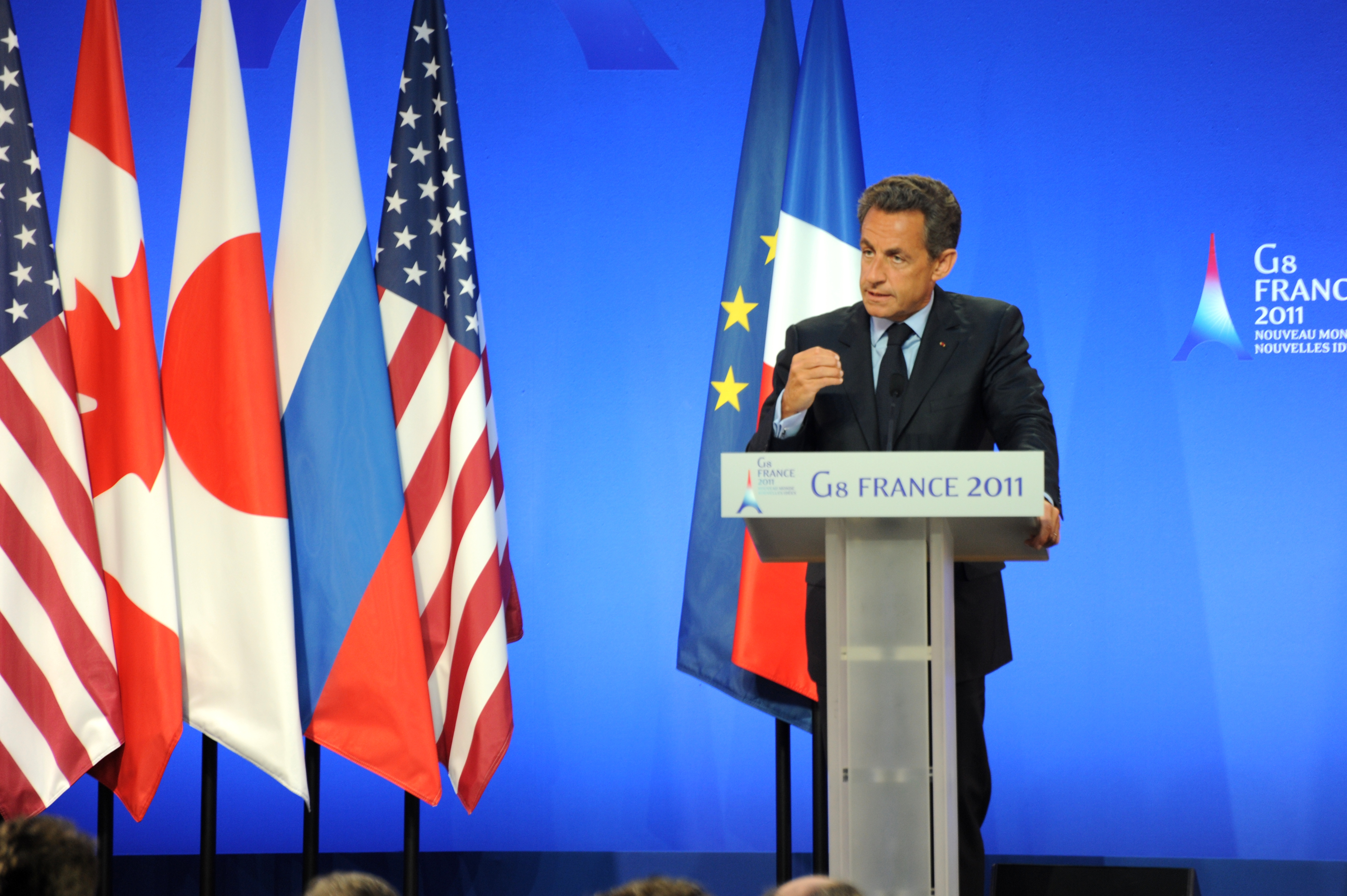 Nicolas Sarkozy, President of the French Republic, at his press conference on the first day of the 37th G8 summit in Deauville, France.